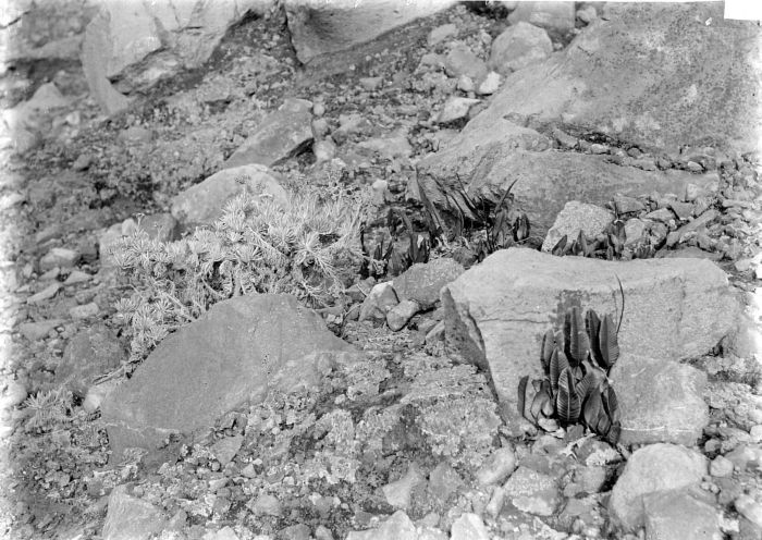 Polypodium vulcanicum (now Selliguea feei) and Gnaphalium javanicum (now Pseudognaphalium affine) on Mount Gedé, Java